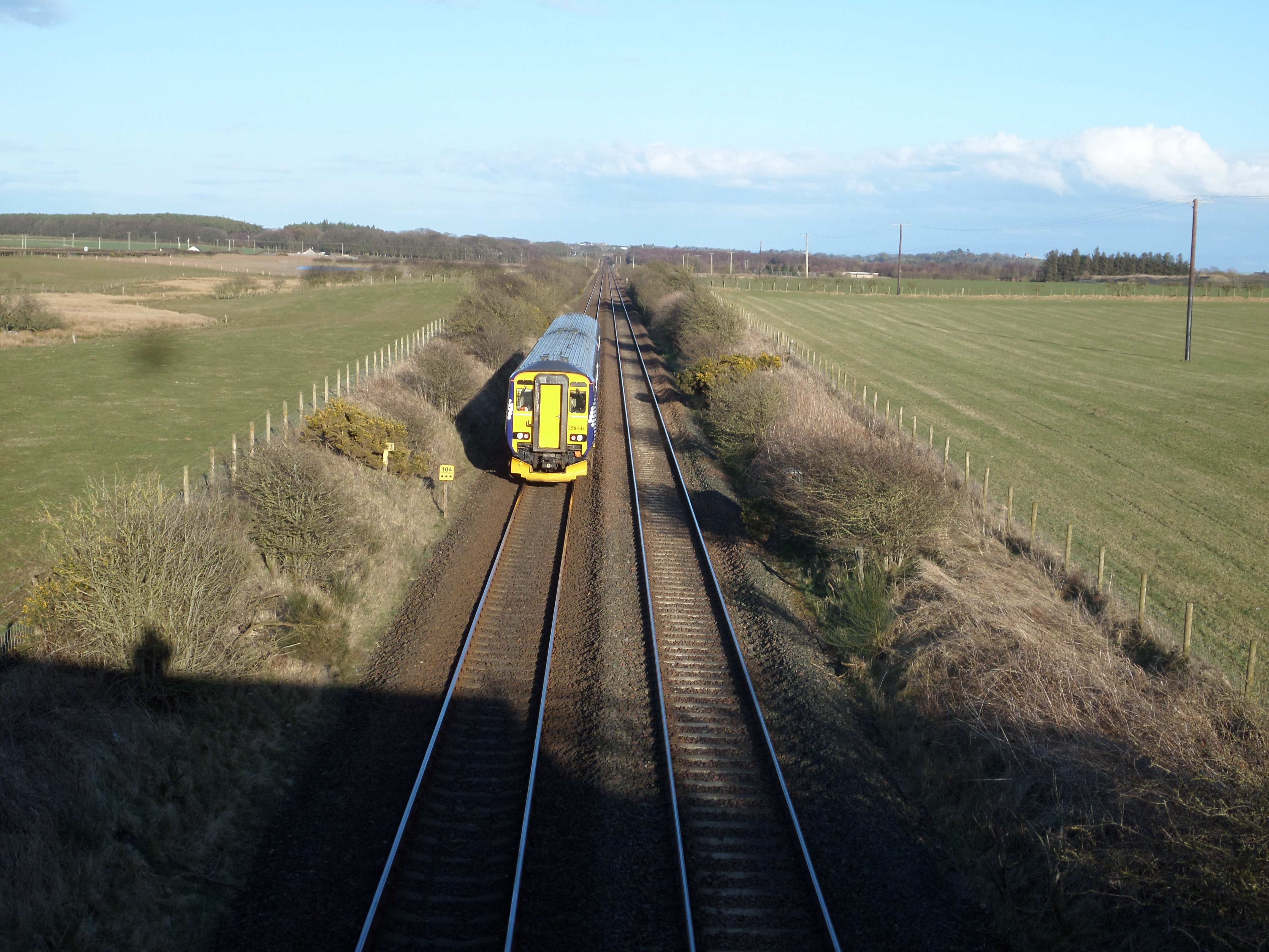 Powfoot Halt site, Dumfries & Galloway, Scotland with train. Opened by the LMS around 1926 to serve the old MOD plant.